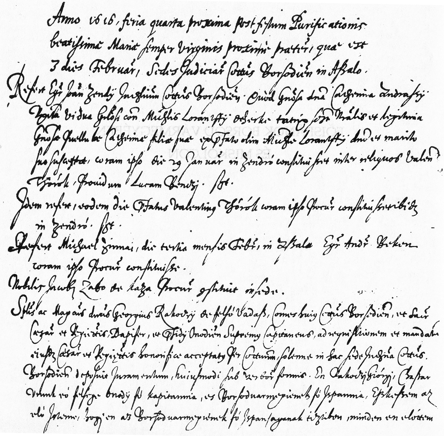 Sheriff Oath Text of György I Rákóczi, February 3 1616.